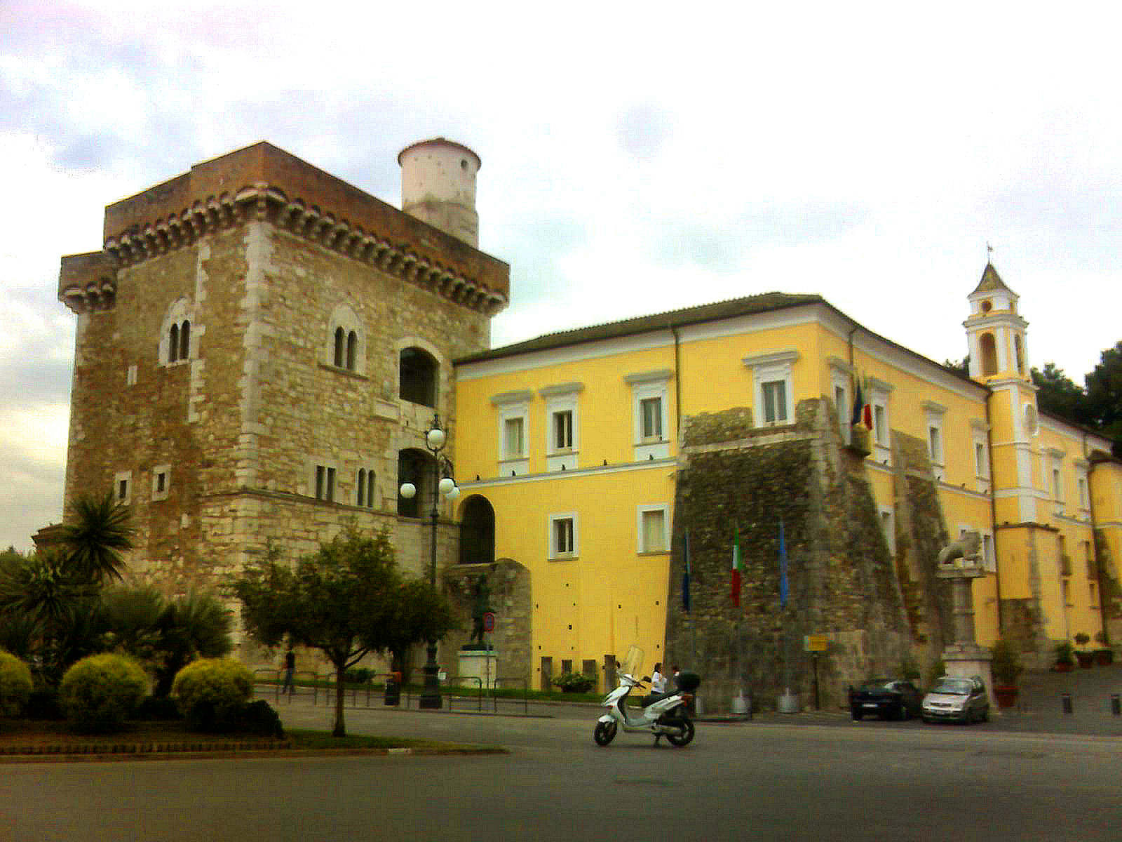 Rocca dei Rettori (Fort of the Rectors), Benevento, Italy